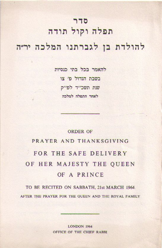 Jewish Prayer for the birth of the prince